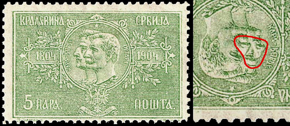 Postage stamp of Serbia, 1904, Karageorge dynasty centennial, 5 paras, engraved by Mouchon.